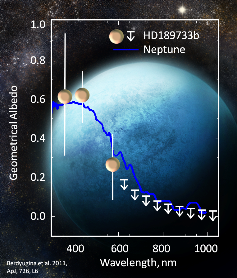 The blue color of the planet is revealed by measuring reflected light in different colors using polarimetry. The picture is based on the result published by Berdyugina et al. 2011, ApJ, 726, L6.